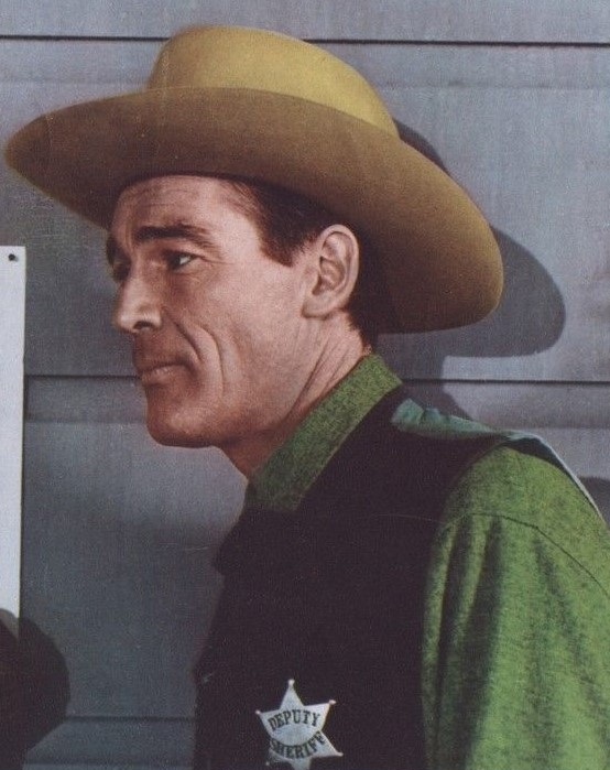 Rory Mallinson in Rim of the Canyon - lobby card (cropped)